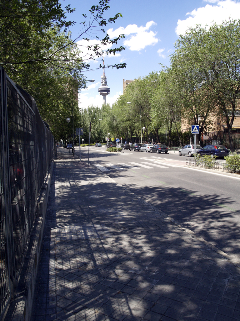 Juan Esplandiu street view, Retiro disctrict (Madrid)